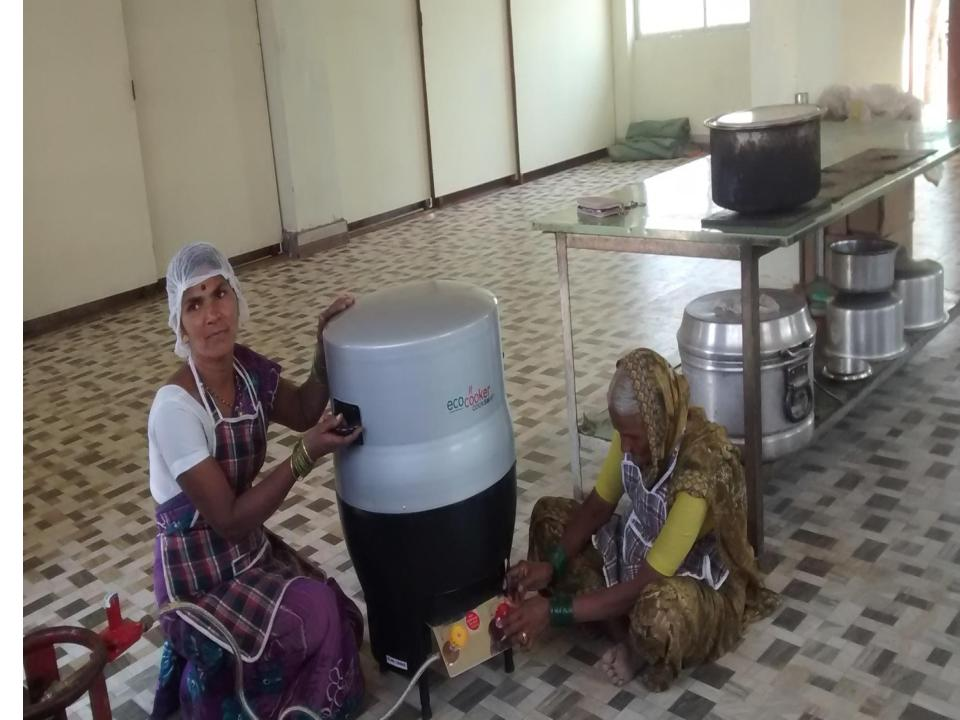 smokeless chullas using in vigyan ashram kitchen making chapati